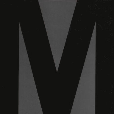 Cover of the Montrose album "Mean". As the cover only consists of the letter "M", it is simple enough not to be copyrightable.